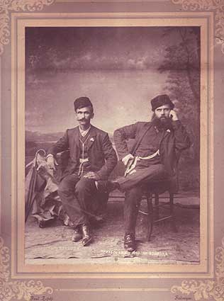 Portrait of Tane Nikolov and Apostol Voivoda